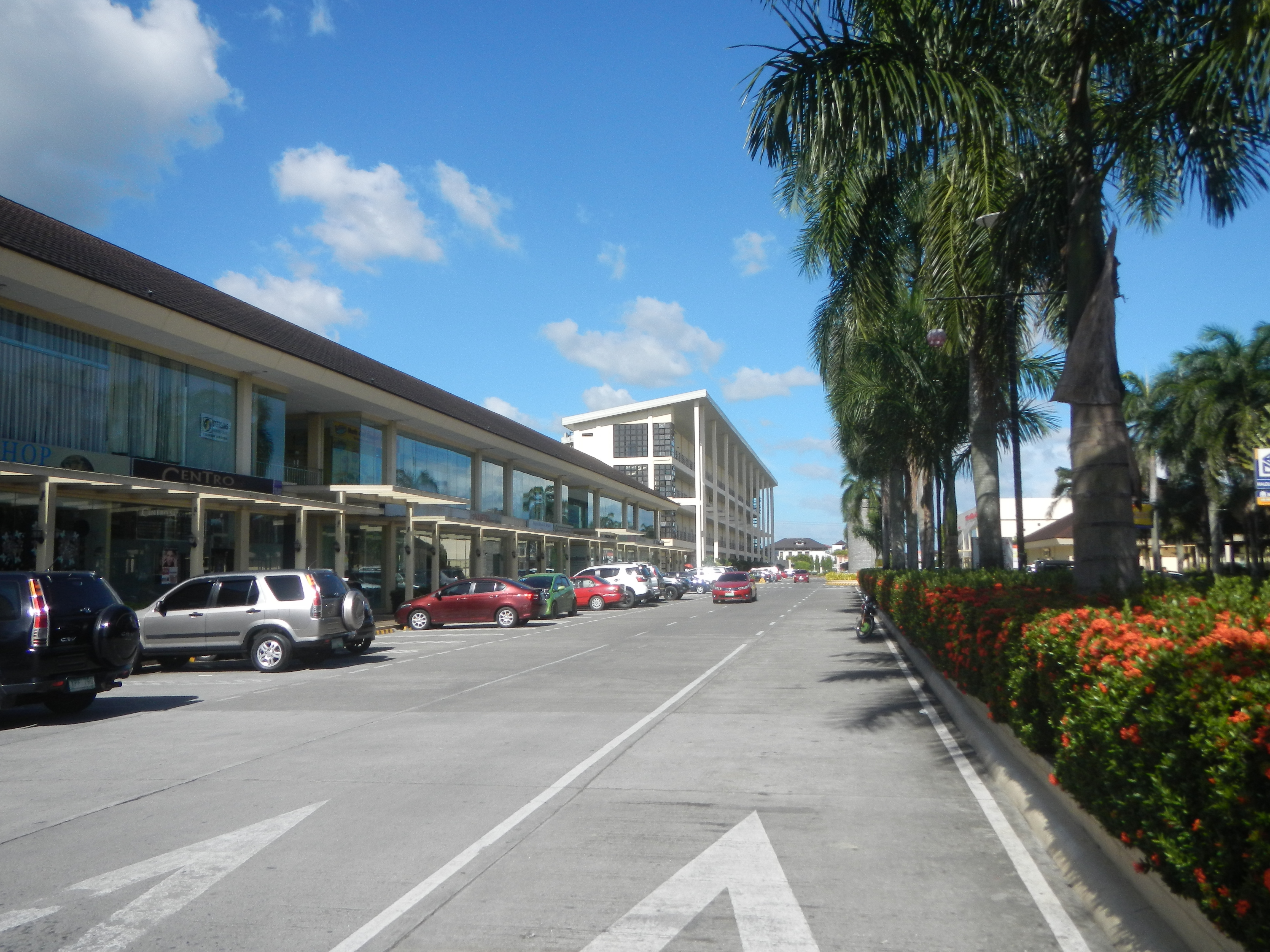 The Cabanas 14°52'30"N 120°47'52"E Garden Mall Kilometers 44 and 45 along MacArthur Highway to Centro Escolar University, in Barangay Longos 14°52'31"N 120°47'42"E, Malolos City along MacArthur Highway or Manila North Road (Note: Judge Florentino Floro, the owner, to repeat, Donor Florentino Floro of all these photos hereby donate gratuitously, freely and unconditionally all these photos to and for Wikimedia Commons, exclusively, for public use of the public domain, and again without any condition whatsoever).